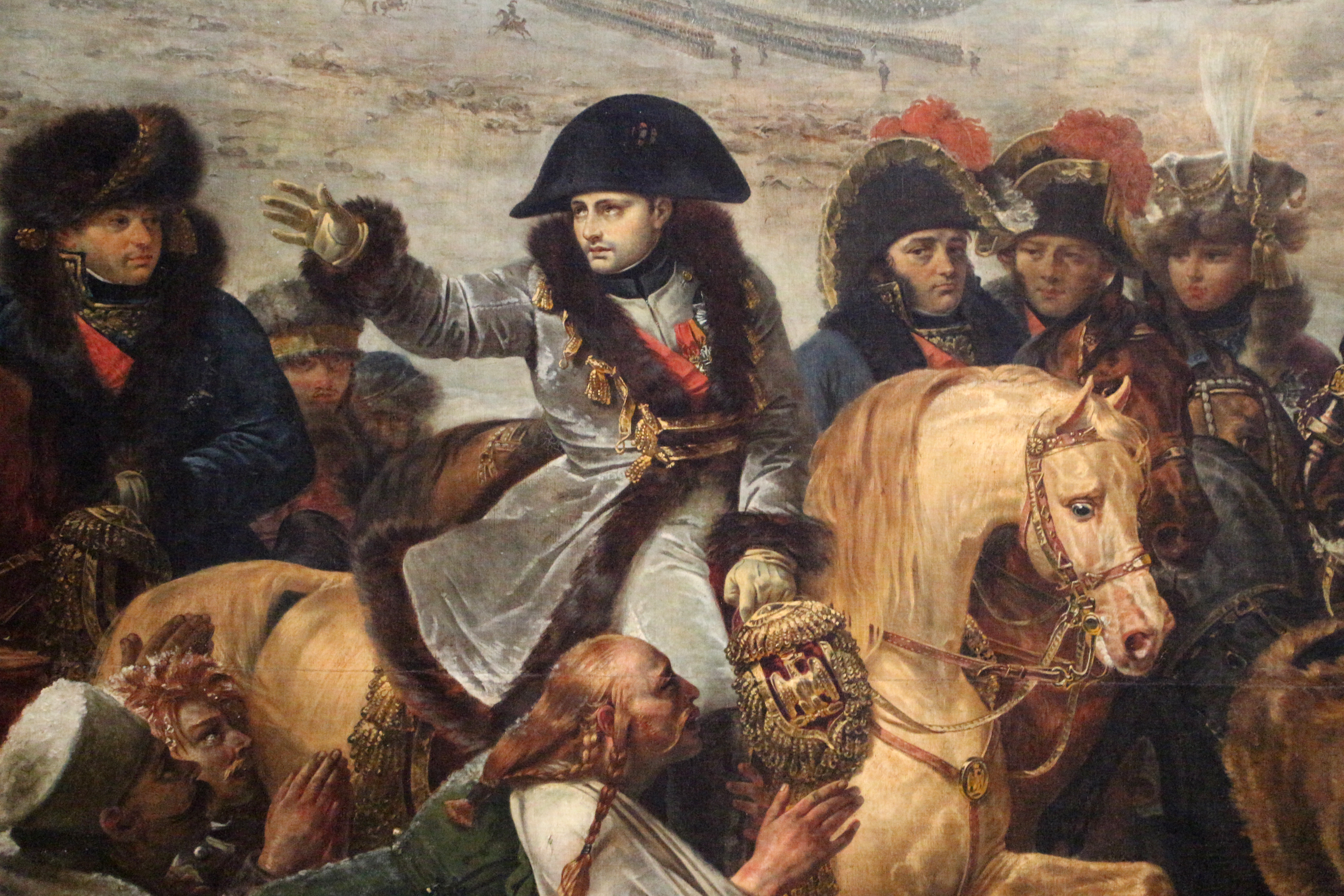 French paintings in the Louvre